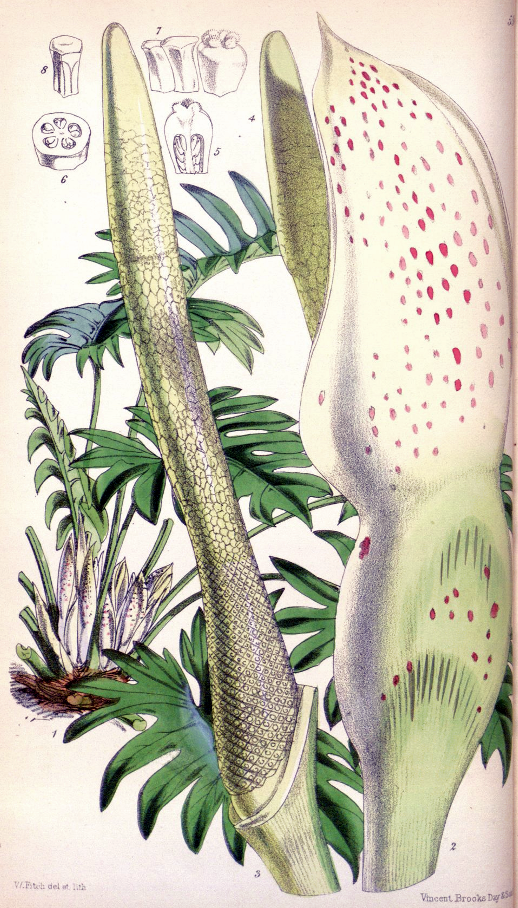 Philodendron pinnatifidum botanical drawing